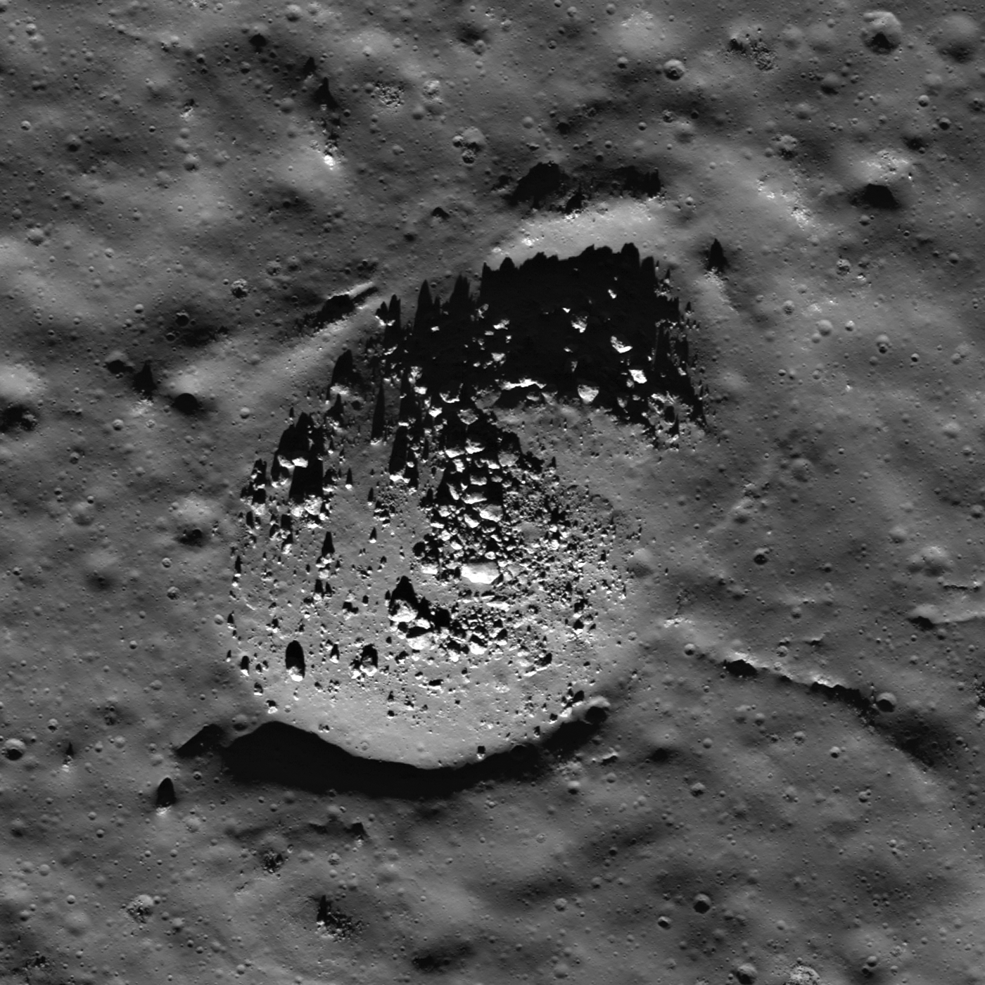 Boulders clustered on a positive relief bulge in an impact melt deposit on the floor of Anaxagoras crater (73.5°N, 349.7°E); most of the boulders are 10 - 30 m across. LROC NAC M155309869R, image width is 910 m [NASA/GSFC/Arizona State University].